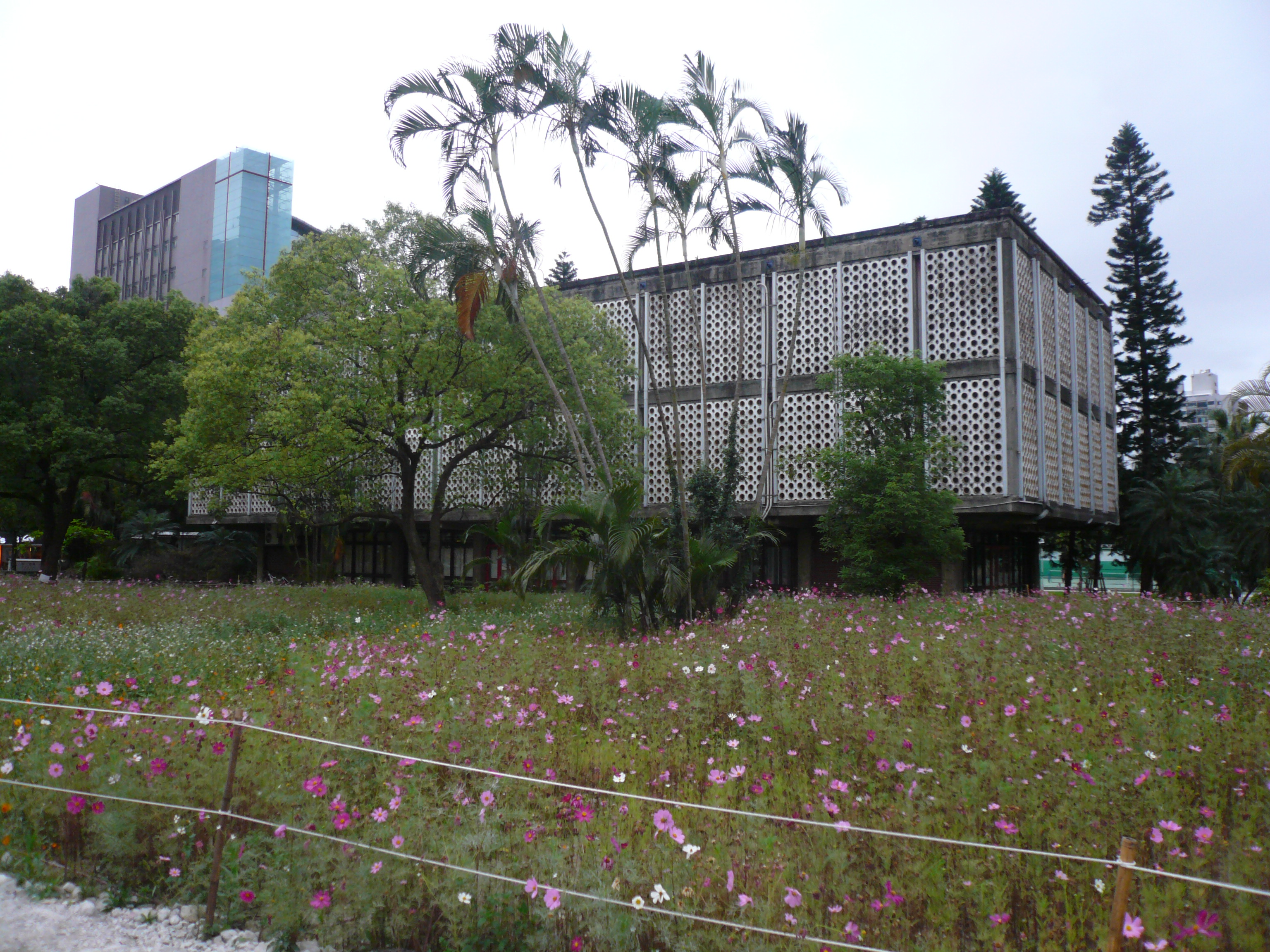 the planed site of humanity building, National Taiwan University, currently is used as a garden. The building in the picture is Agricultural Exhibition Hall